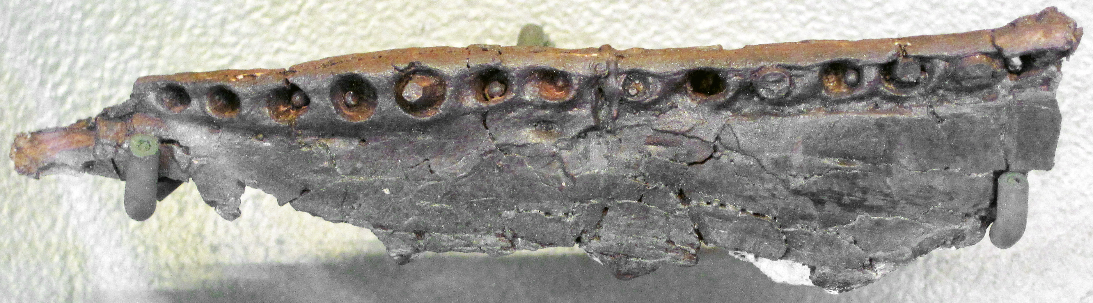 Goniopholis sp. - fossil crocodilian jawbone from the Jurassic of Utah, USA. (DNM 3047, Dinosaur National Monument, Utah, USA) The crocodylomorphs have been around since the Triassic (early Mesozoic). Some fossil crocodylomorphs reached such immense sizes that they preyed on dinosaurs. Another fossil group of reptiles, the phytosaurs , closely resemble crocodylomorphs, but are unrelated (phytosaurs are crurotarsan archosaurs). All modern and fossil crocodylomorphs have the same overall skeletal structure, although some fossils forms did depart somewhat from the stereotypical crocodile body plan (quadrupedal, dorso-ventrally compressed bodies, elongated skull & snout with eyes atop the head). So, the crocodylomorphs are, in relative terms, evolutionarily conservative. Living crocodilians are tropical to temperate, predatory semiaquatic reptiles, but fossil representatives include fully marine forms and inferred terrestrial forms. Classification: Animalia, Chordata, Vertebrata, Reptilia, Crocodylomorpha, Crocodyliformes, Neosuchia, Goniopholididae Stratigraphy: unrecorded/undisclosed member in the Morrison Formation (possibly the Carnegie Quarry Sandstone of the Brushy Basin Member), Kimmeridgian Stage, Upper Jurassic, ~150 to 156 Ma Locality: unrecorded/undisclosed site in Dinosaur National Monument (possibly the Carnegie Quarry), northern Uintah County, northeastern Utah, USA See info. at